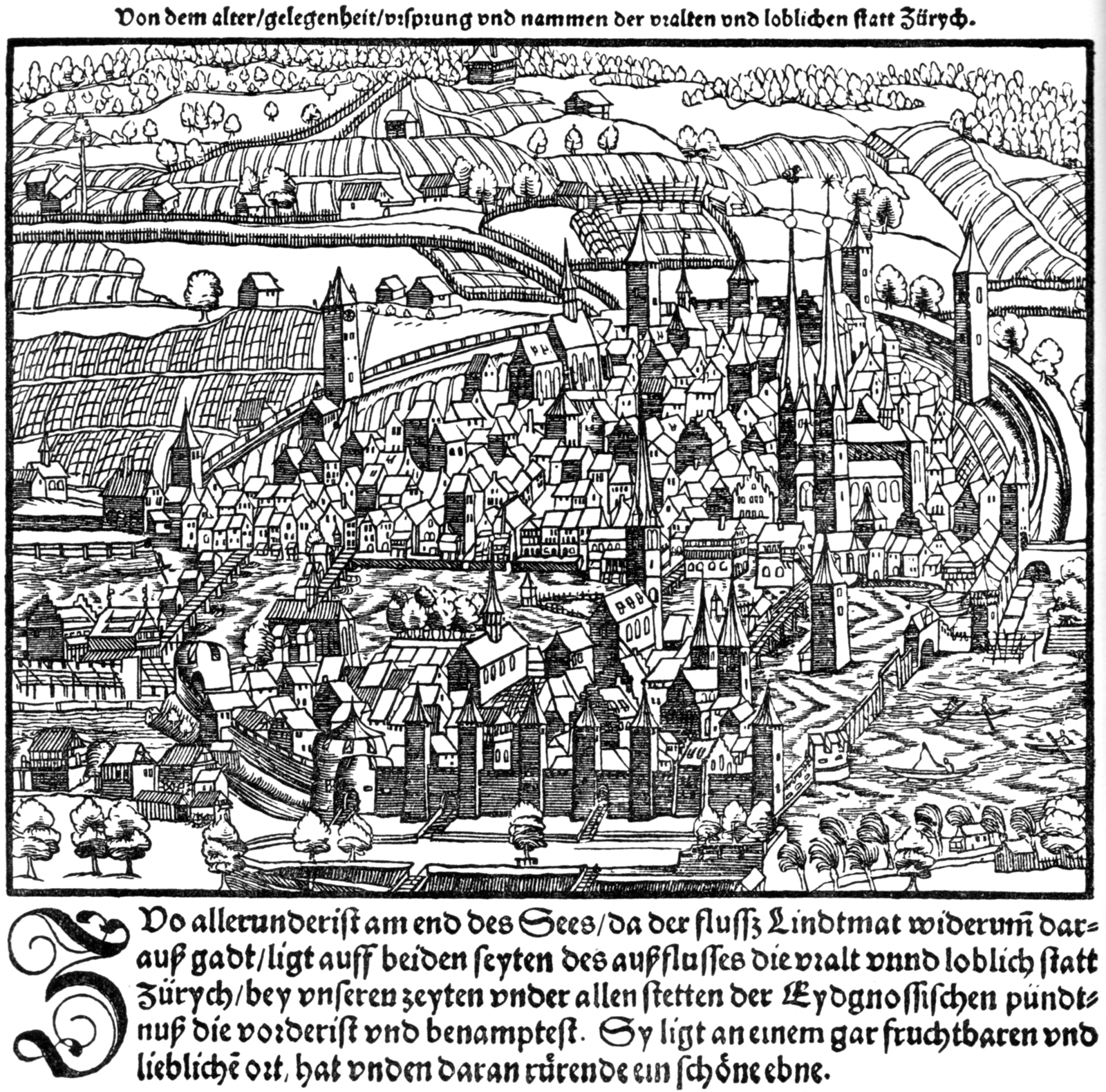 Zurich in the year 1548, woodcut from the cronicle of Stumpf